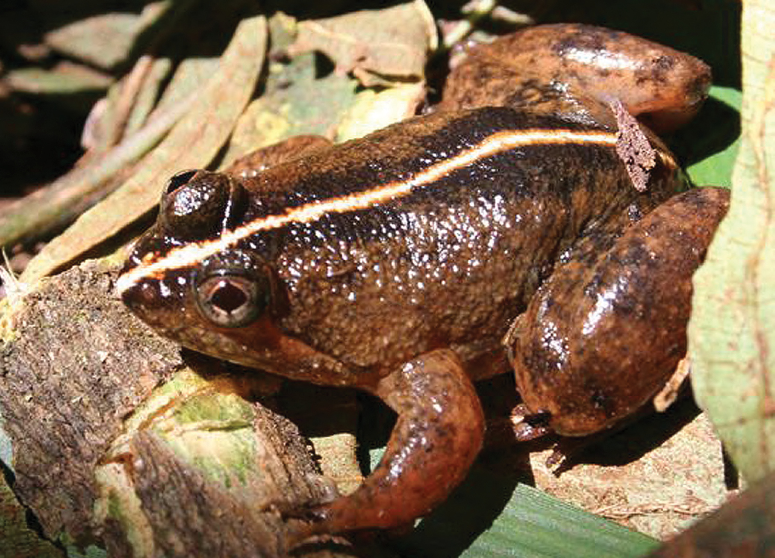 Occidozyga laevis from Dyadyadin. Photo: MVW.